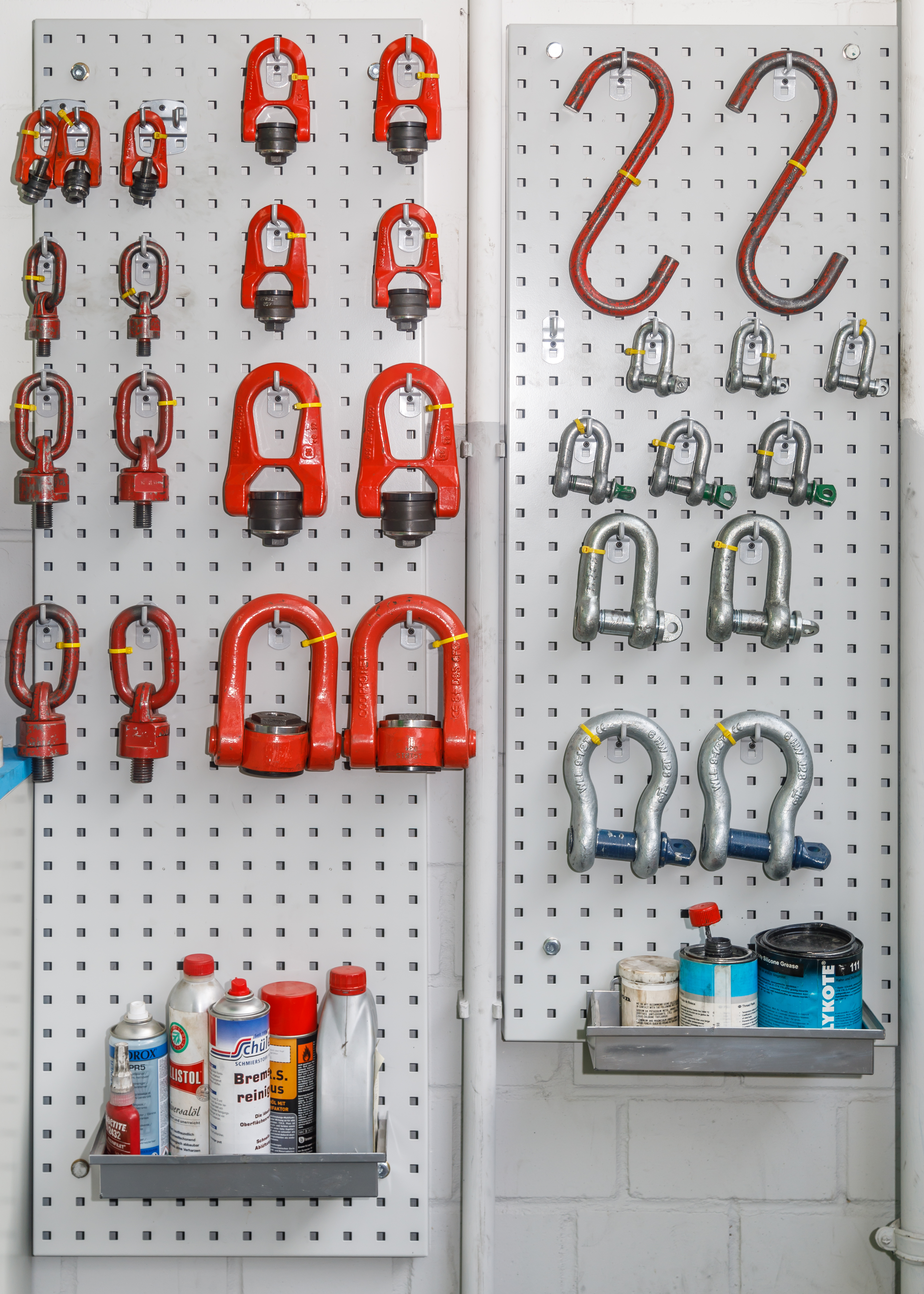 Mannheim, Germany: Different type of shackles. The yellow cable strap indicates the date of the last tool inspection